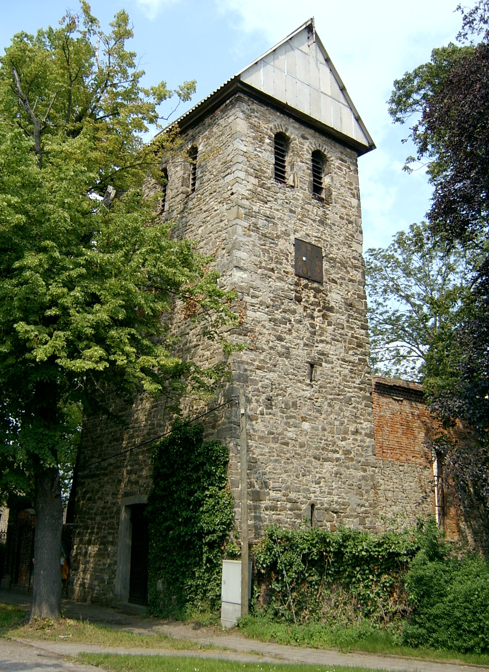 Church in Pißdorf